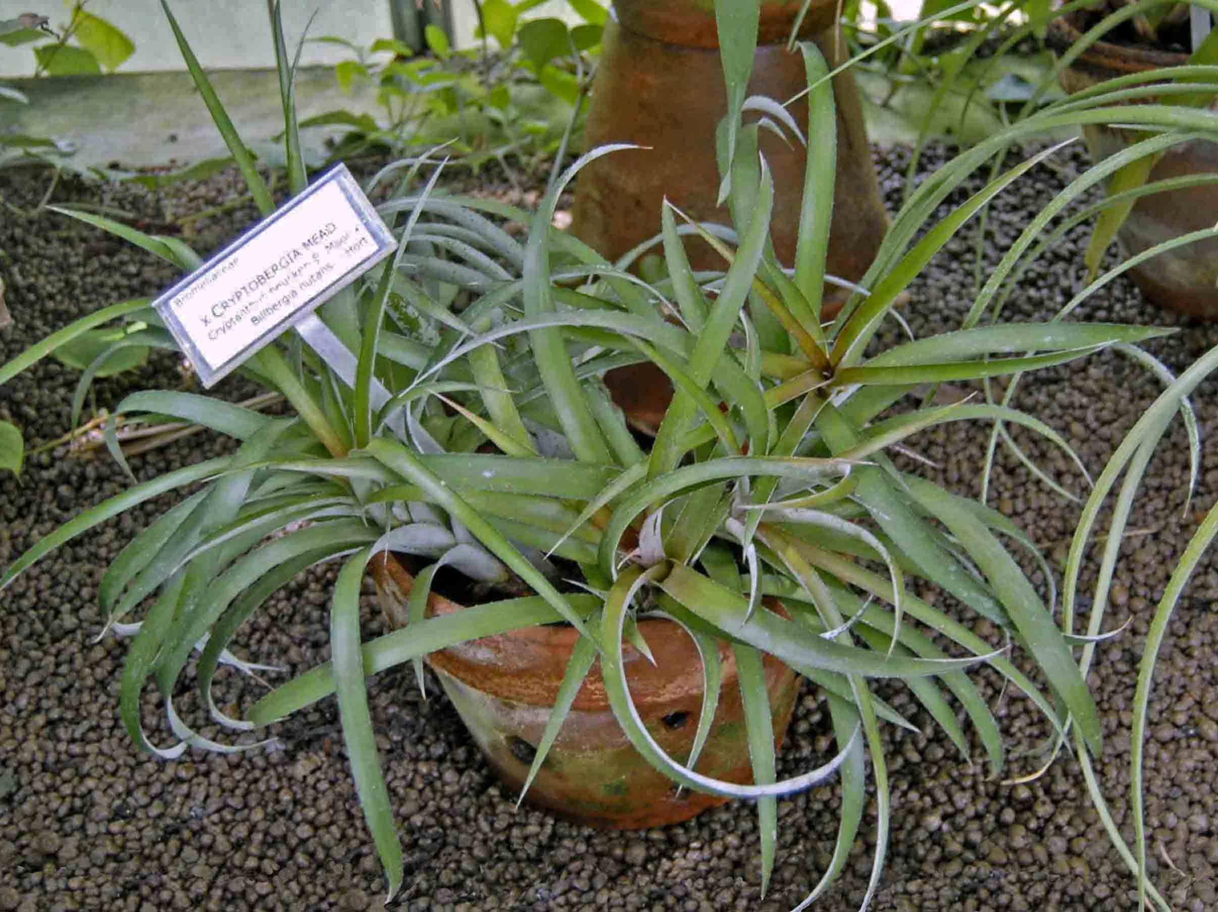 × Cryptbergia 'Mead' at Orto Botanico dell'Università di Genova